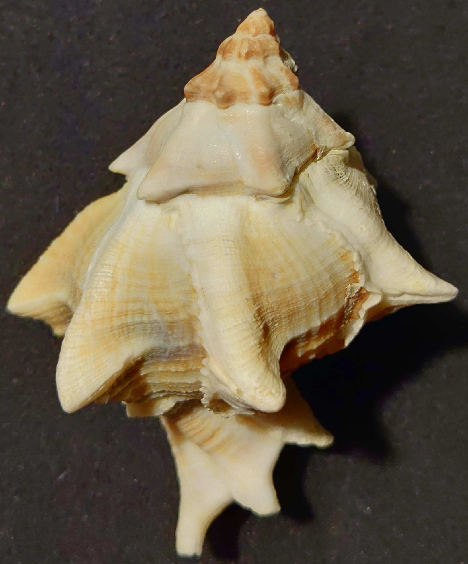 Hexaplex Pecchiolianus Back